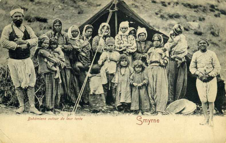 Postcard of group of gypsies in front of their tent in Smyrne